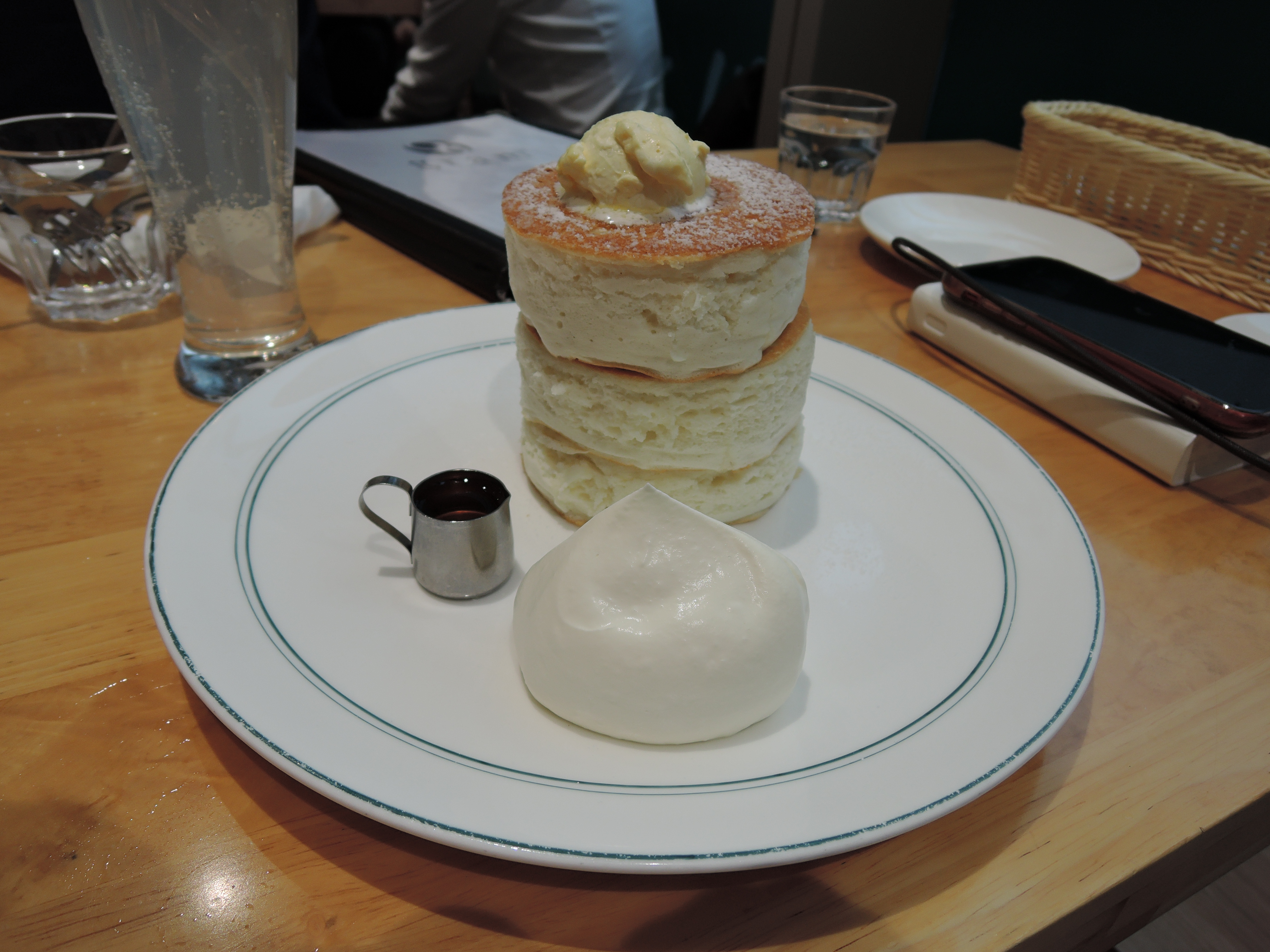 A pancake from gram pancake and cafe in tsim sha tsui